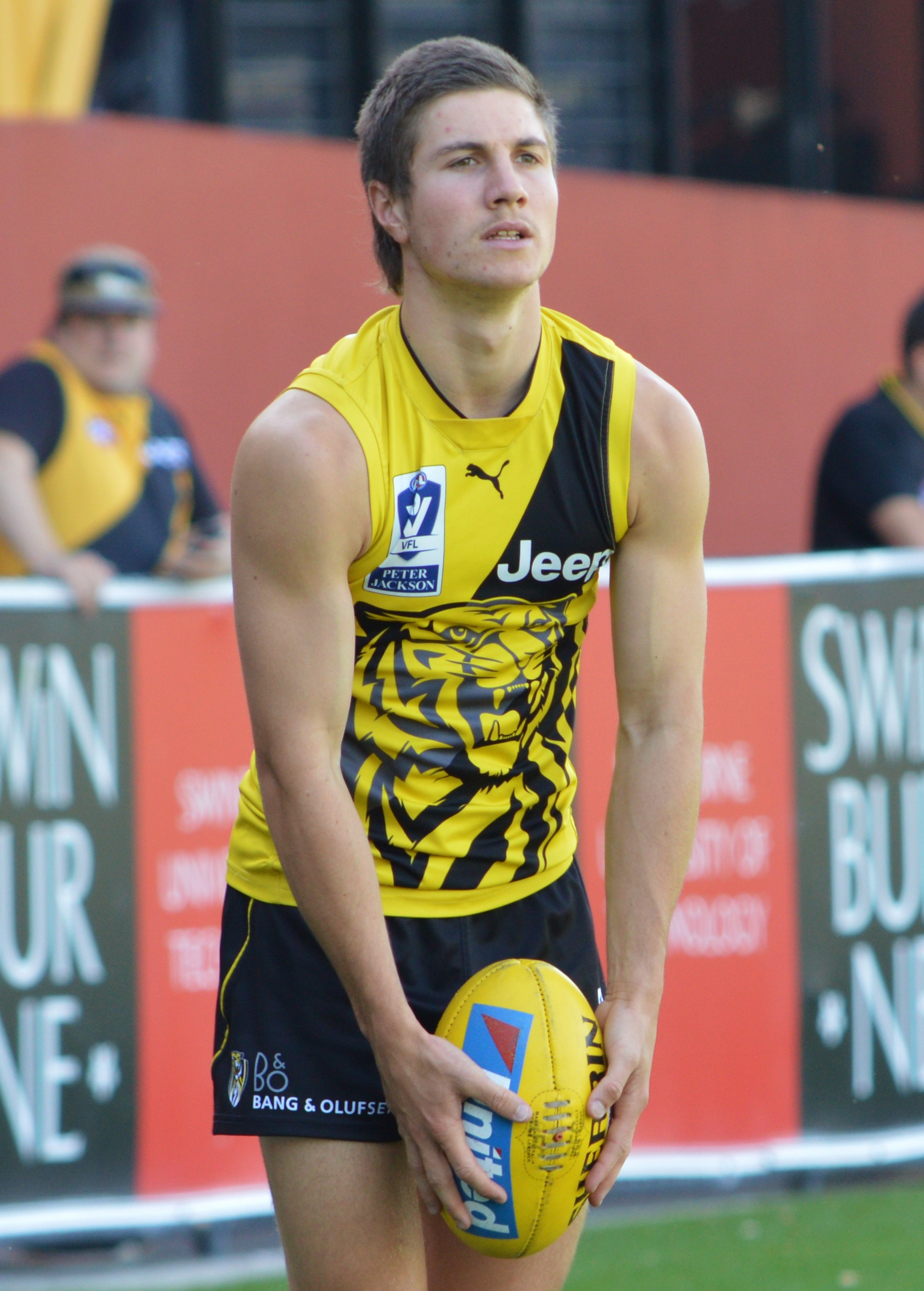 Liam Baker warming up before a pre-season VFL practice match with Richmond in March 2018